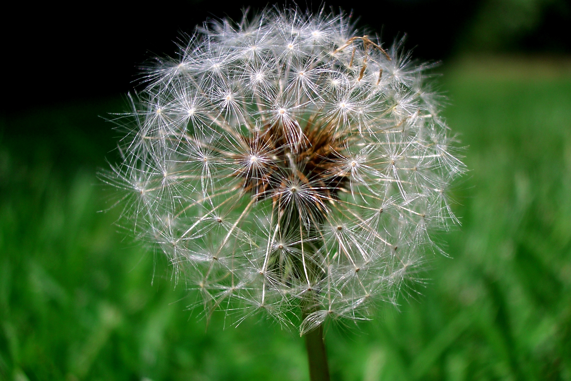 Pappus (flower structure) of Asteraceae. Cabrera de Mar (Barcelona).